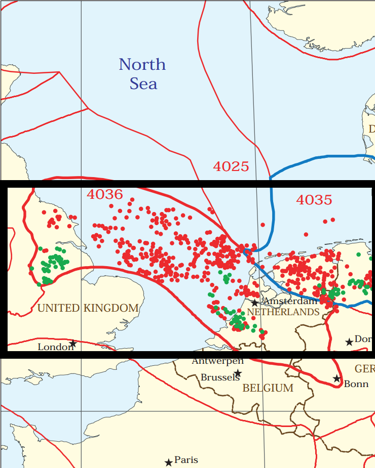 Map showing offshore and onshore oil (green circles) and gas (red circles) fields in the southern North Sea Basin.